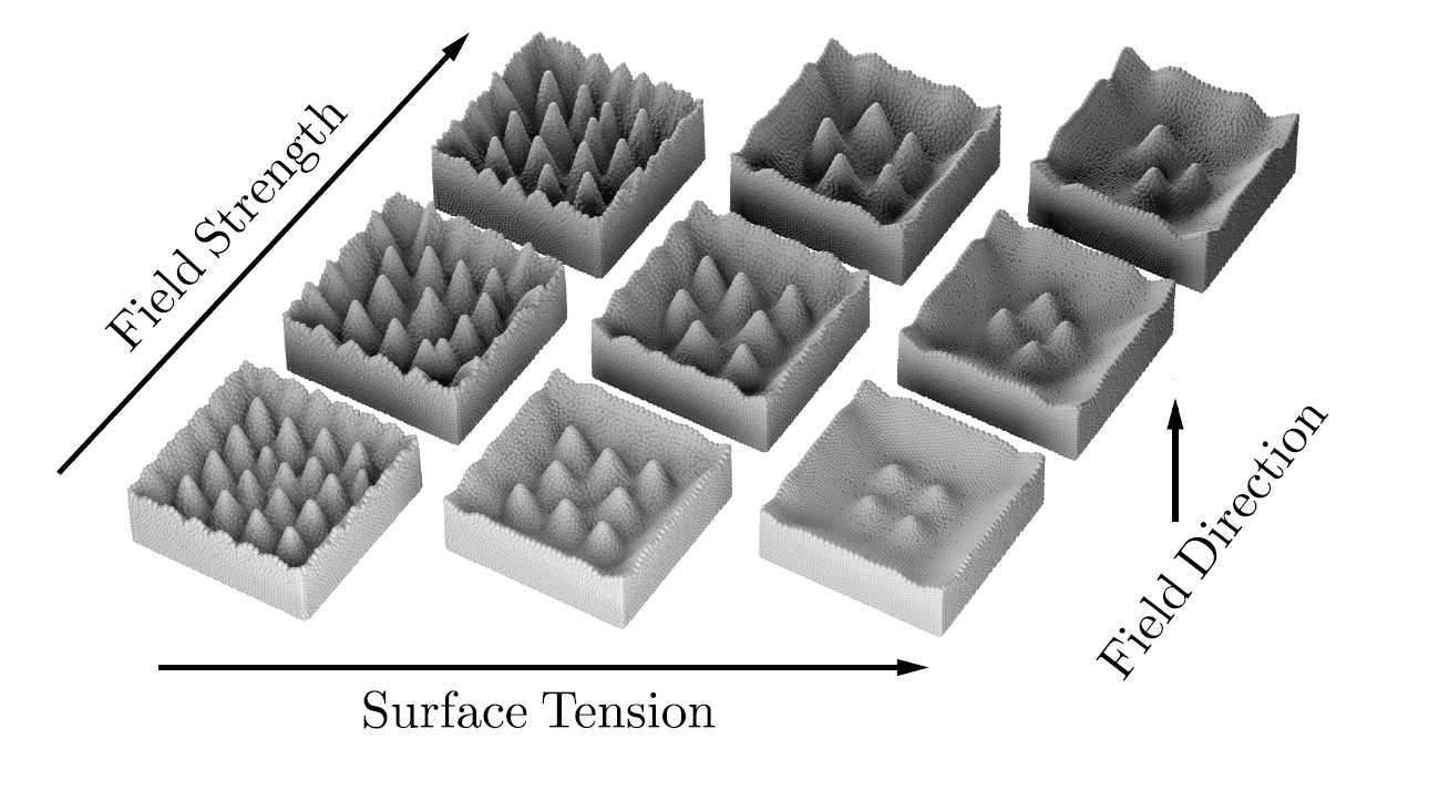 Ferrofluid simulations for different parameters of surface tension and magnetic field strengths using a vertical homogeneous magnetic field. A strong surface tension force smooths the contour while a strong magnetic field strength increases the height of the spikes.